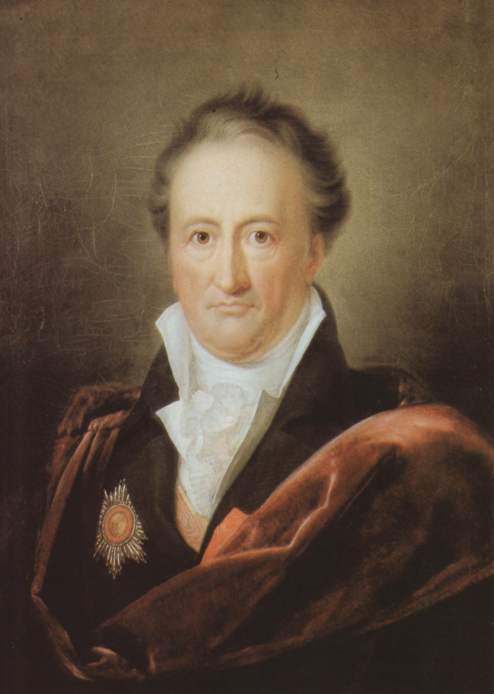 Goethe portrait by Gerhard von Kügelgen, owned by Freies Deutsches Hochstift, Frankfurt am Main